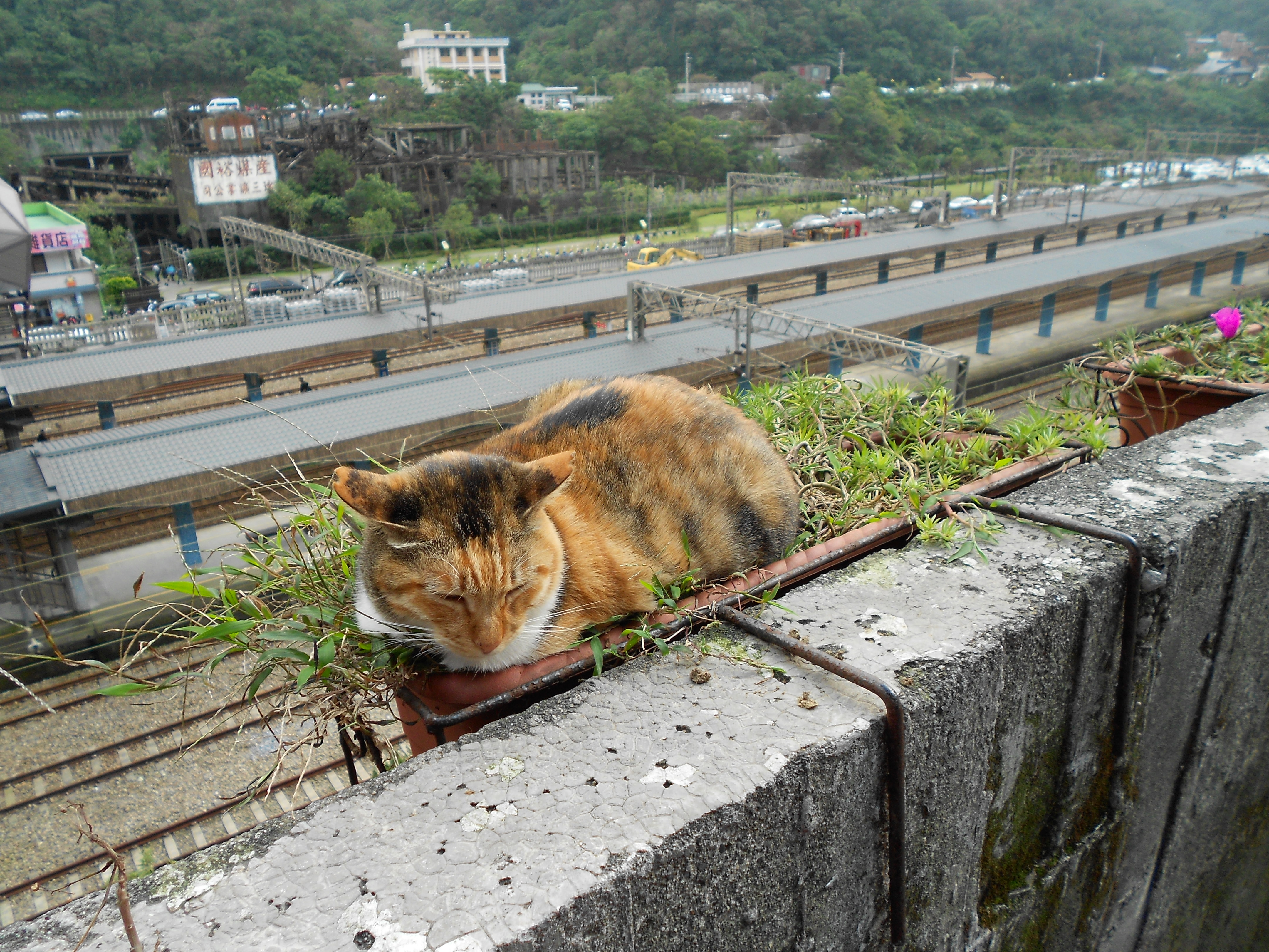 Ruifang District, New Taipei中文（台灣）: 瑞芳區 侯硐貓村